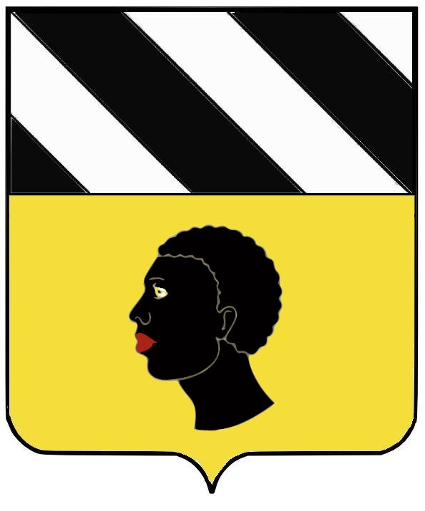 Coats of arms of Tucher family